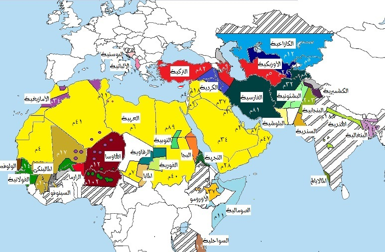 Islamic world languages and population